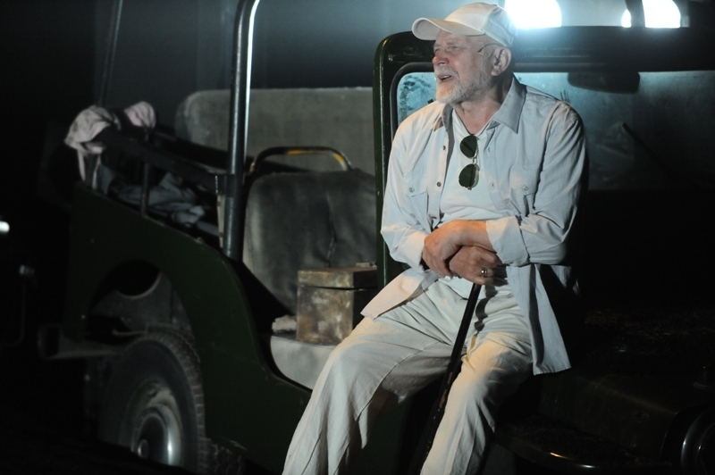 Actor Boris Ahanov, Israel